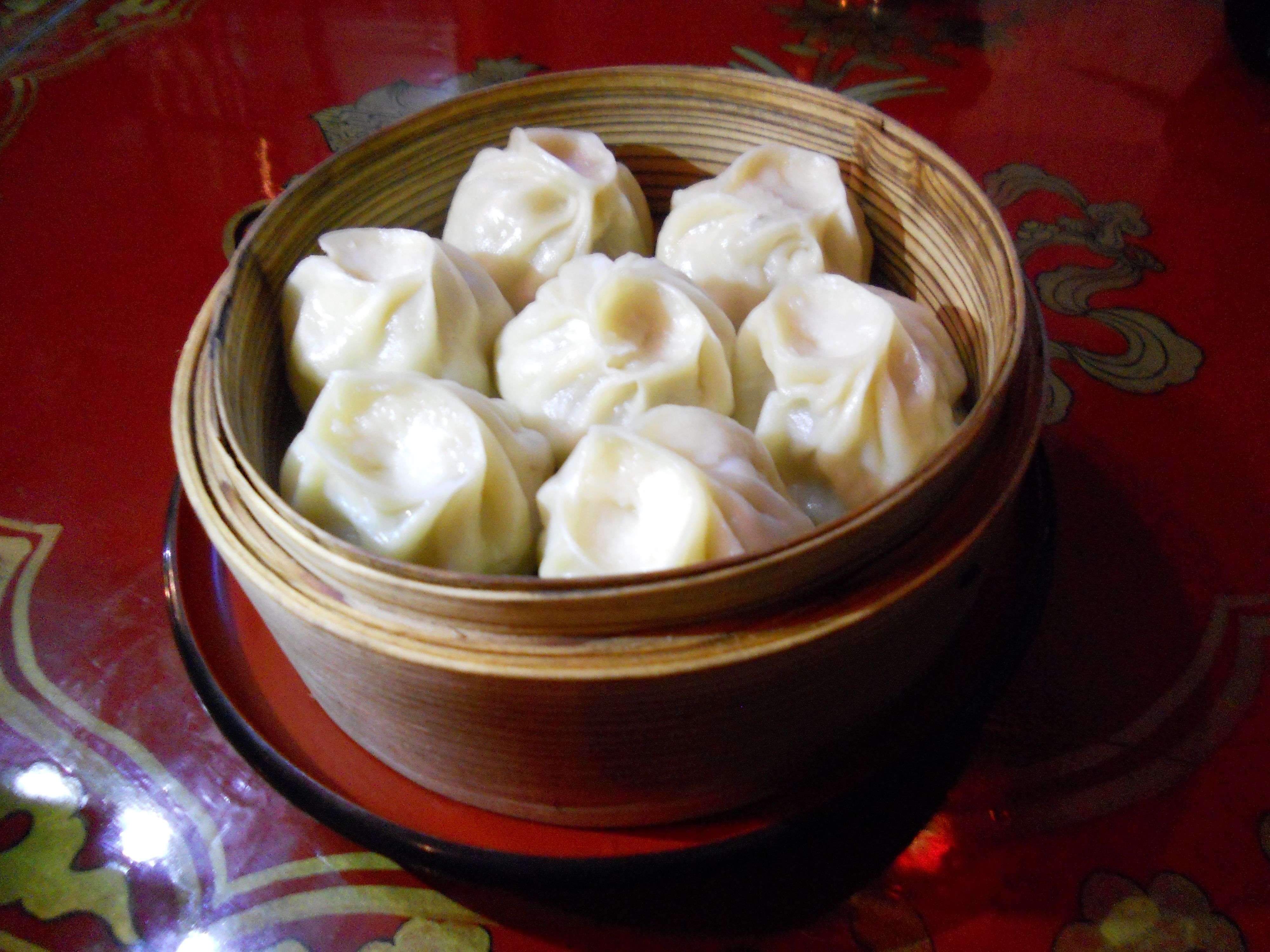 Mongolian foods.